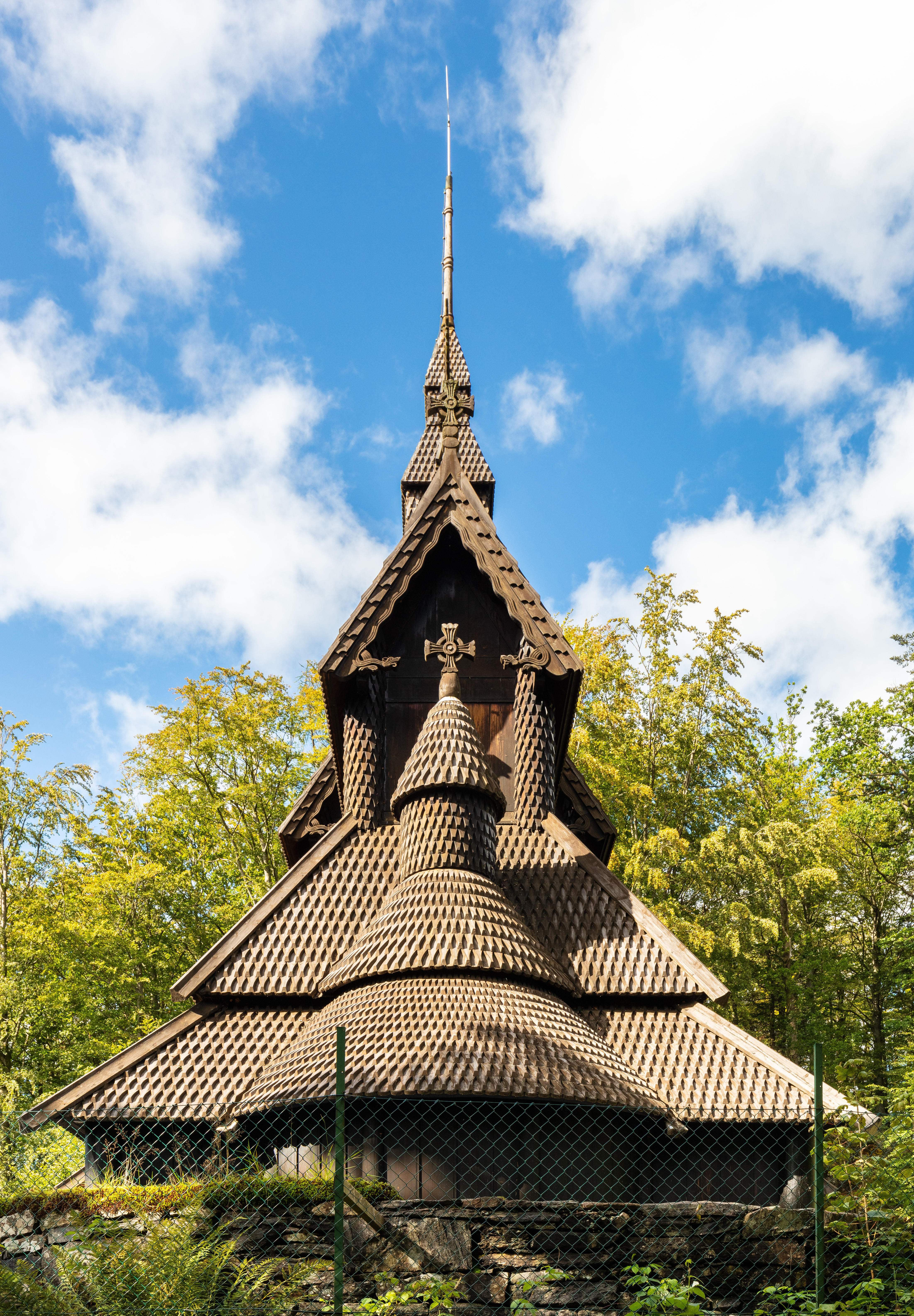 Fantoft stavkirke, Bergen, Norway